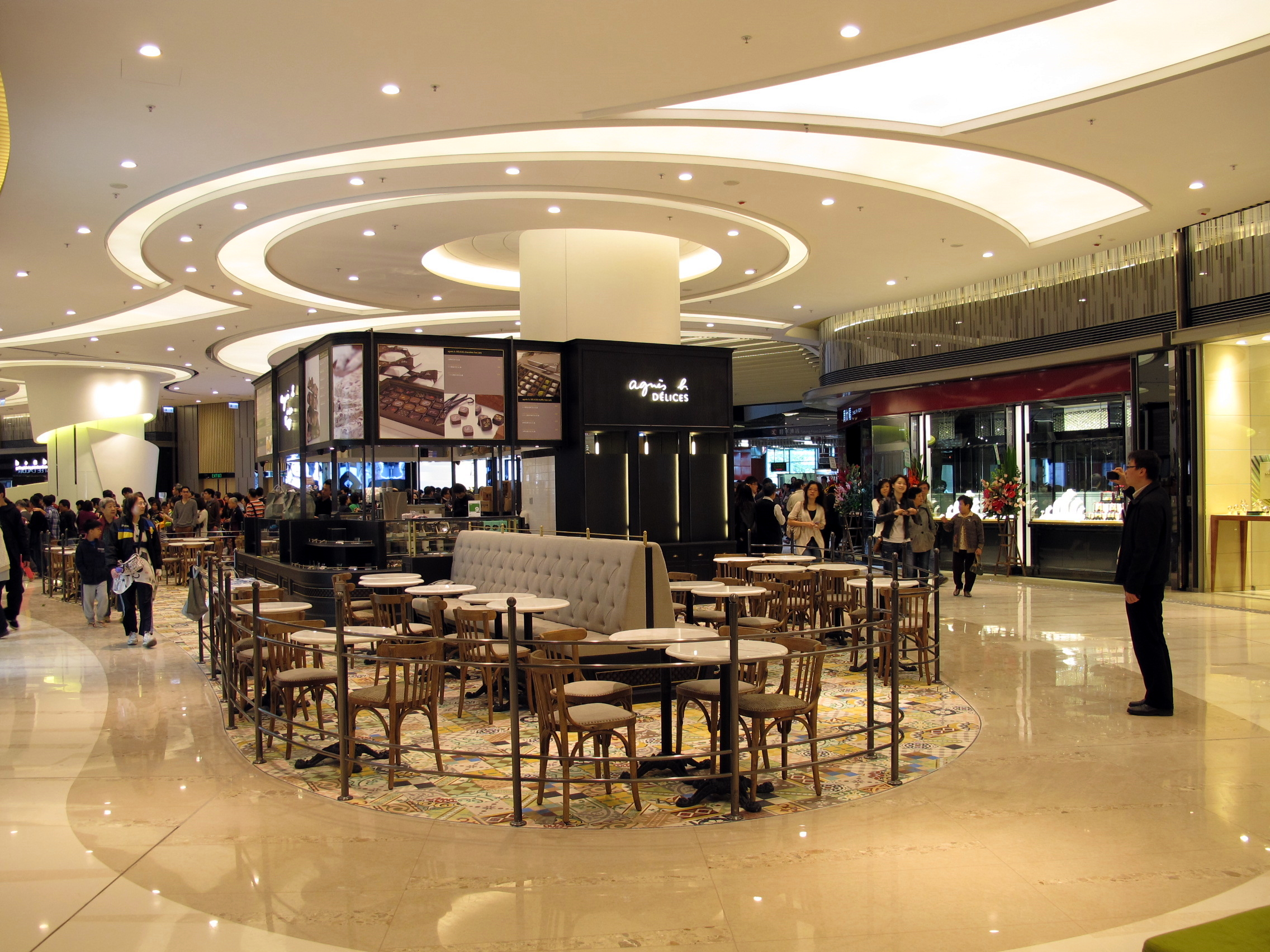 PopCorn agnes b.Cafe